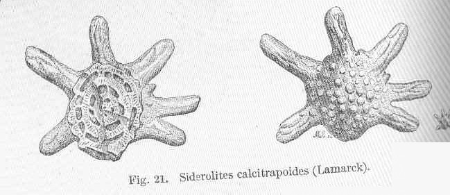 Sideerolites calcitrapoides (Lamarck) Subject: Foraminifera, Siderolites Tag: Invertebrates